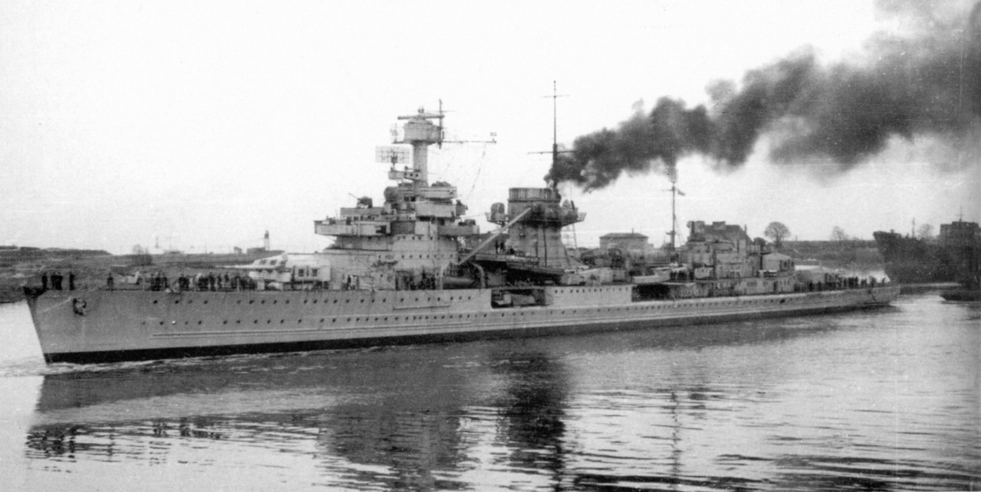 The former German light cruiser Nürnberg after being ceded to the Soviet Union under the terms of the Potsdam Conference. The light cruiser Nürnberg, launched in 1934, was renamed Admiral Makarov when in USSR service.